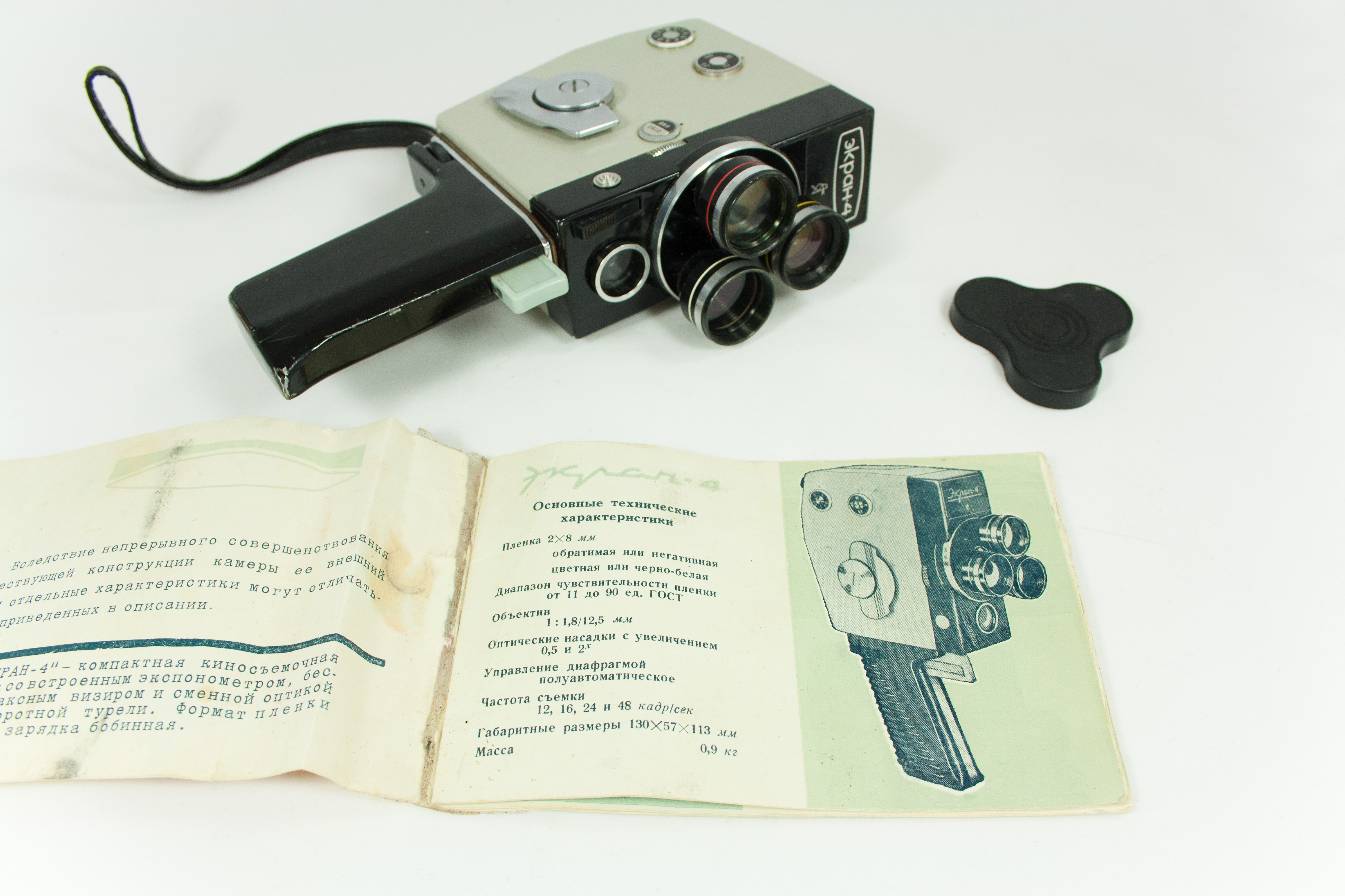 Ekran-4 film camera, made in USSR